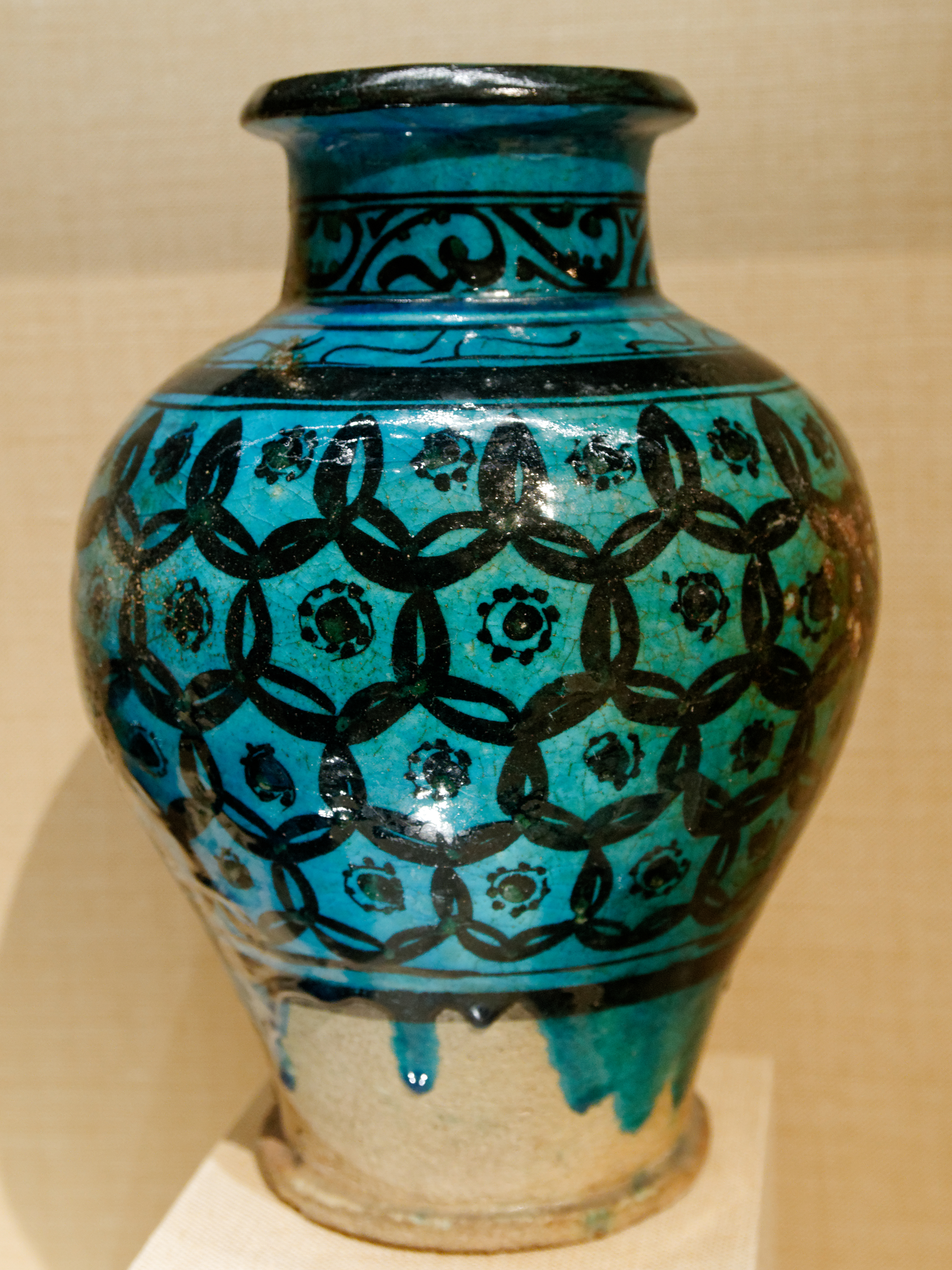 A Raqqa ware jar from the Ayyubid dynasty.